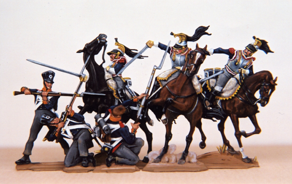 30mm flat tin figures, French Cuirassiers of the 9th cuirassiers regiment clashing against Prussian infantry at Ligny, drawing engraving and edition George W. Rössner. Painting Jan Sennebo